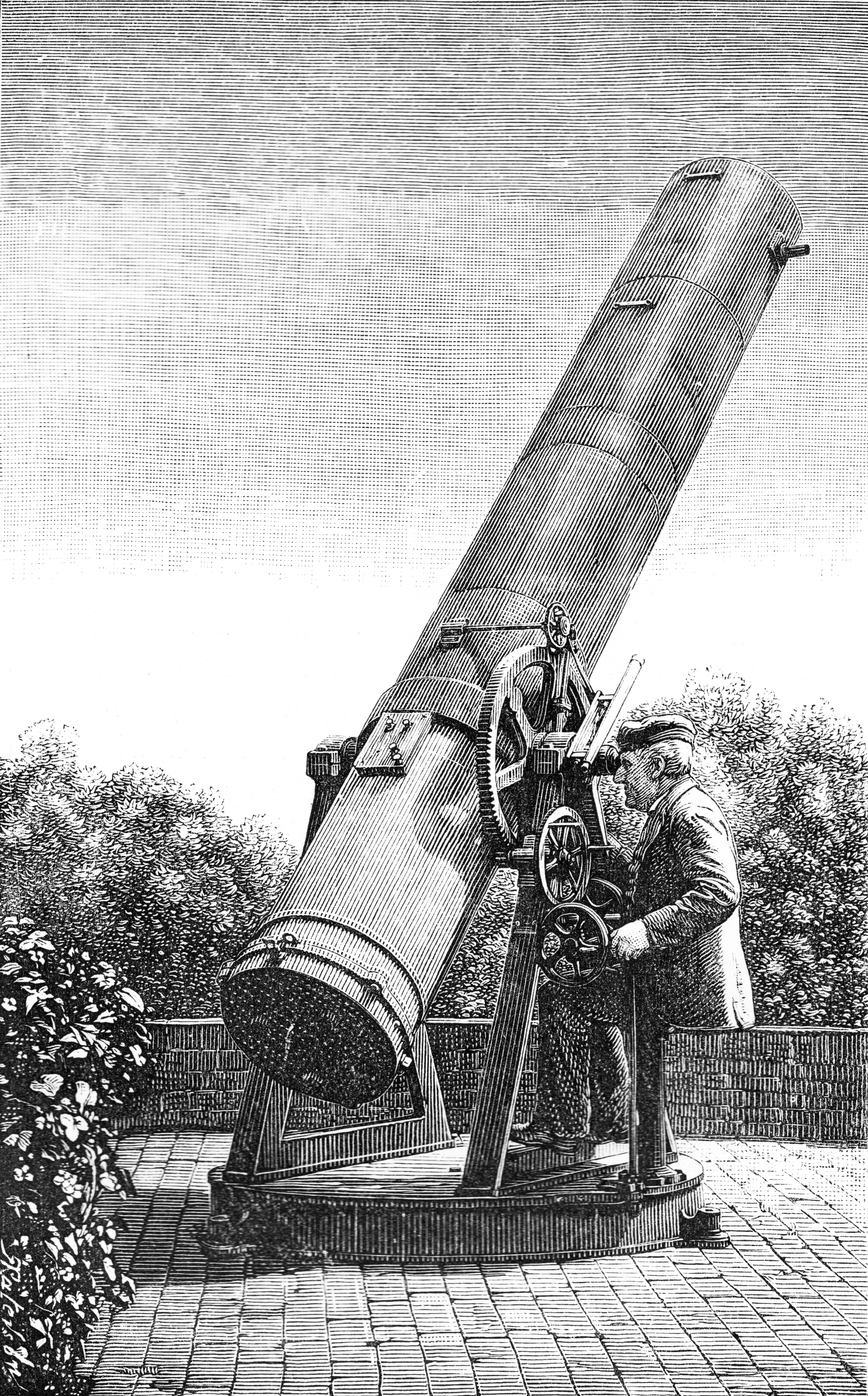 Nasmyth's Telescope